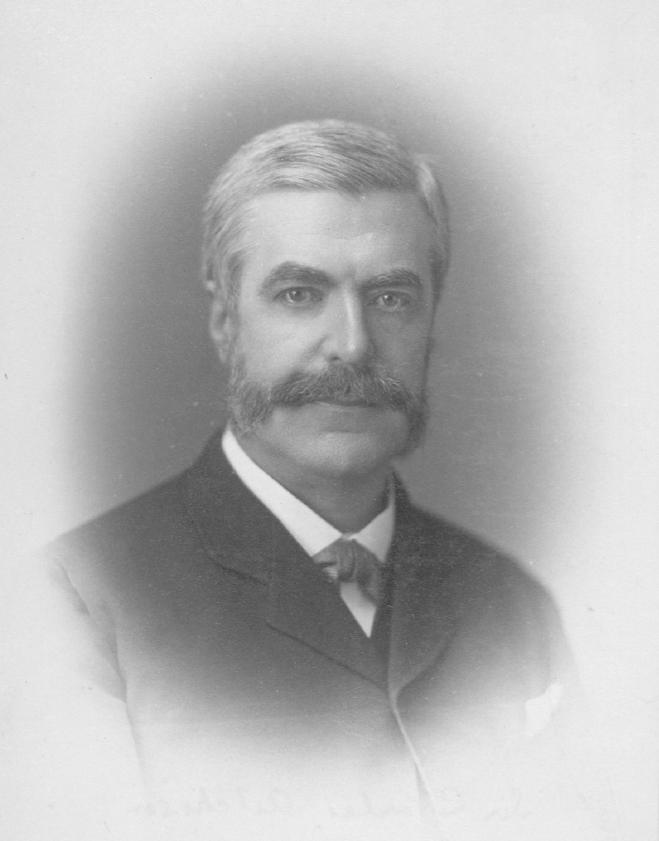 Charles U. Aitchison (1832-96). Administator in British-India